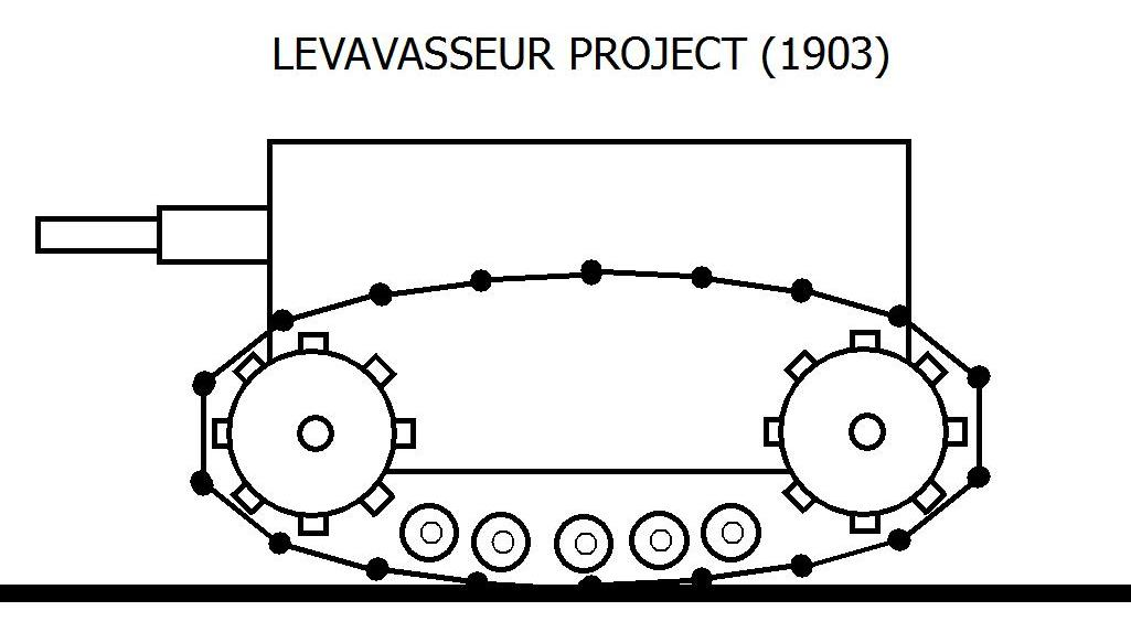 Schematics of the Levavasseur project, 1903